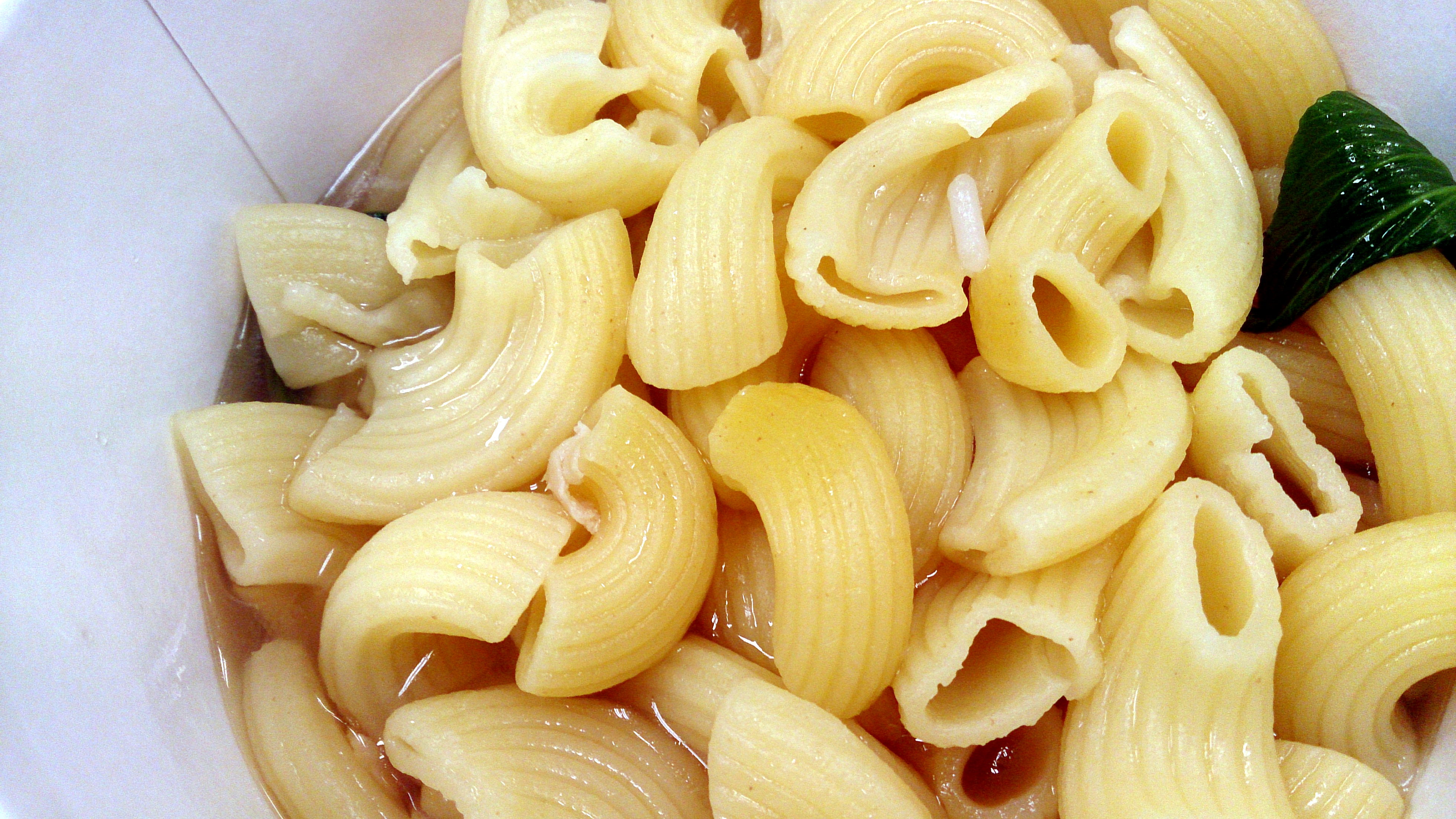 Boiled marcroni